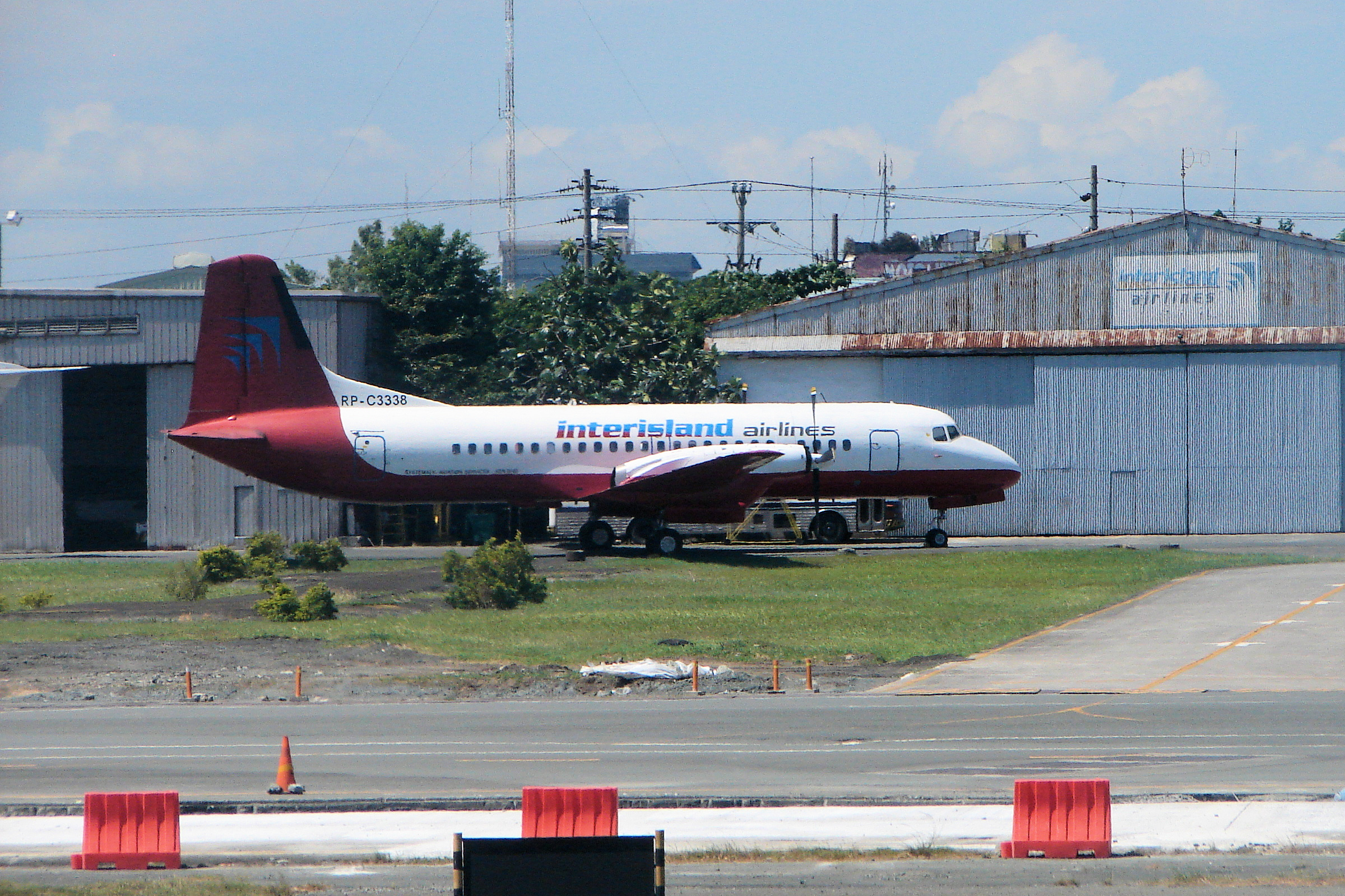 NAMC YS-11 of Interisland Airlines at NAIA